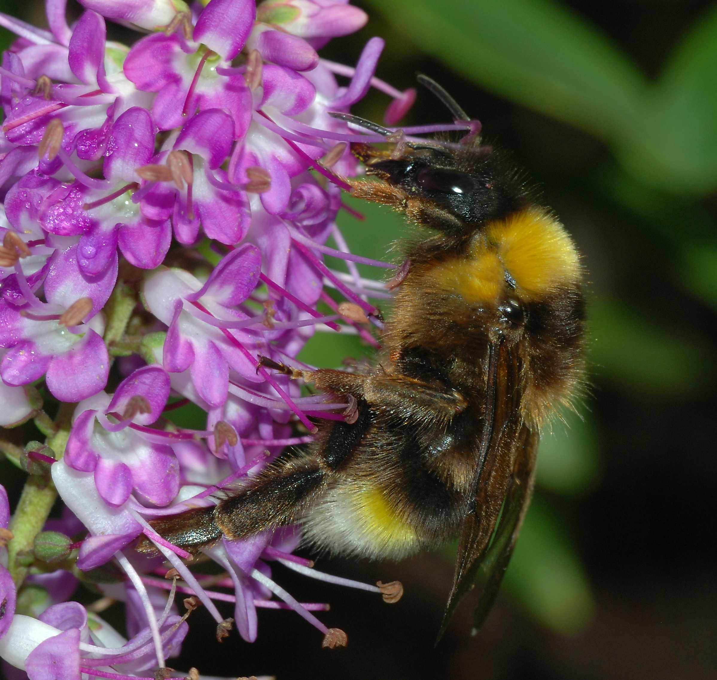 A cuckoo bumblebee (Bombus vestalis), parasite of the bumblebee Bombus terrestris. Probably a queen, due to large size